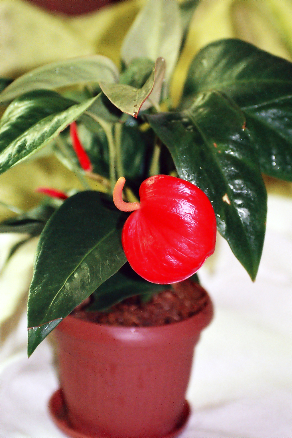 Anthurium scherzerianum